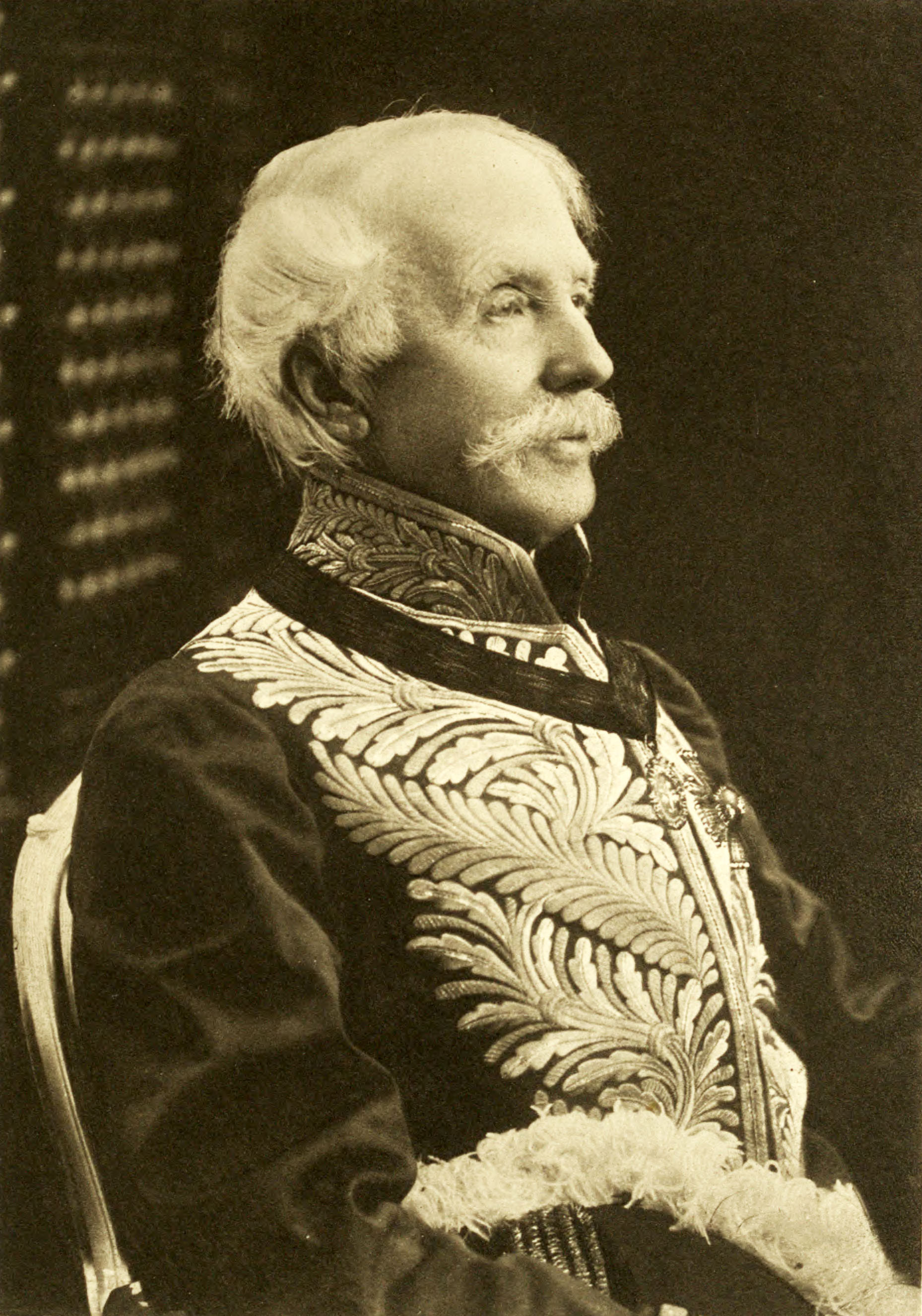 This was written beneath it: From a Photograph by Byrne of Richmond